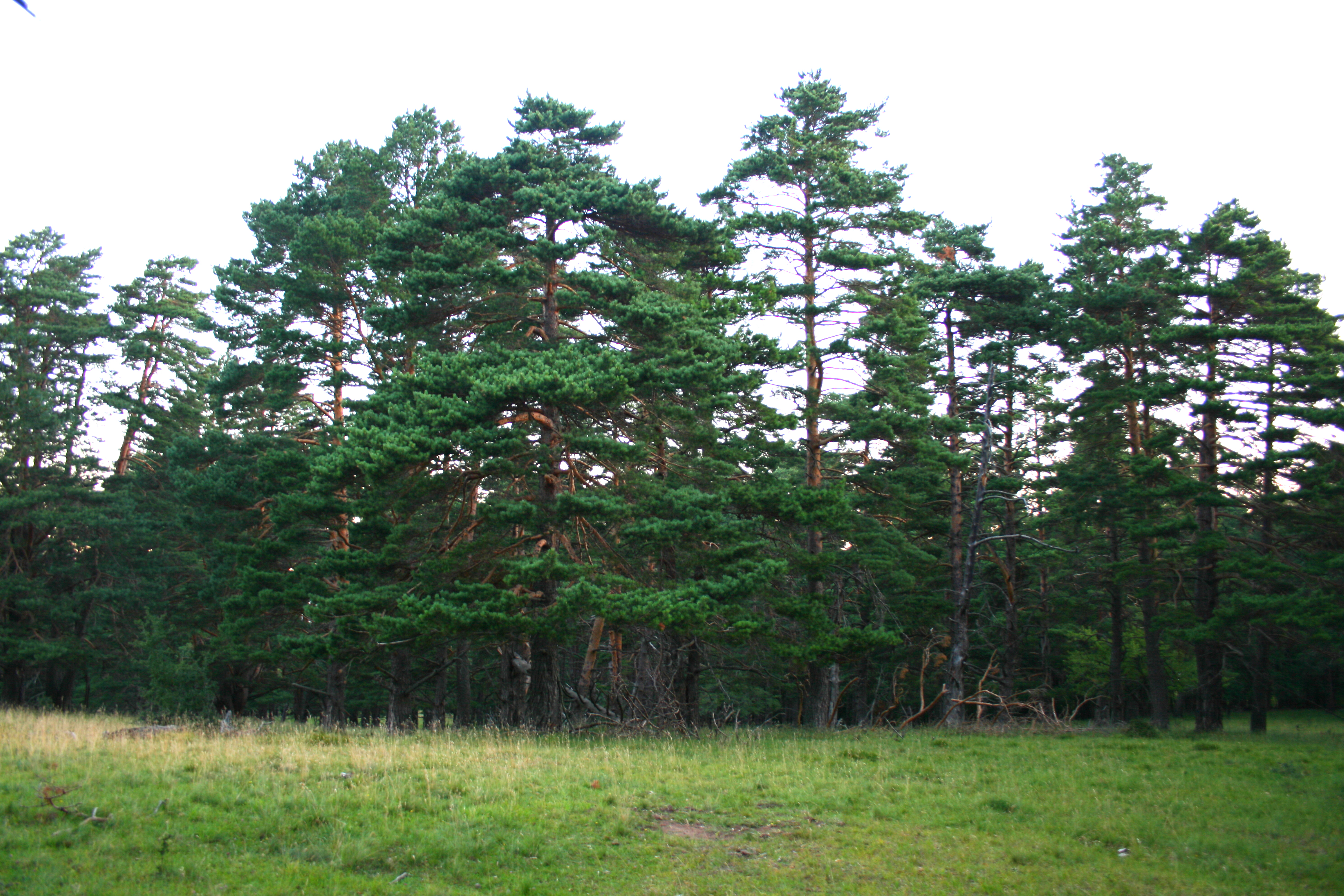 Pinus sylvestris var. hamata, Babugan, Crimea, Ukraine